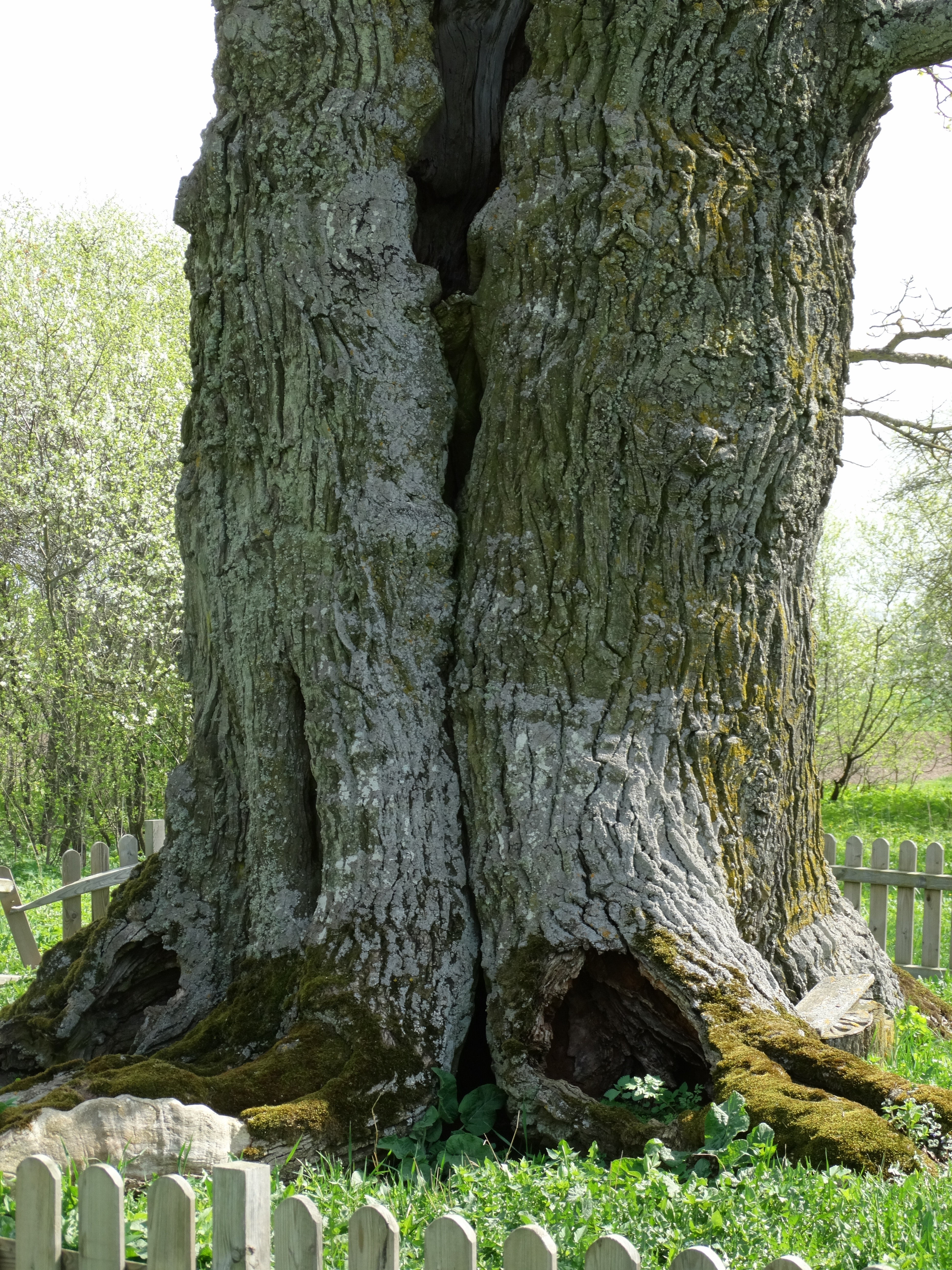 Dapšioniai Oak, Radviliškis District, Lithuania